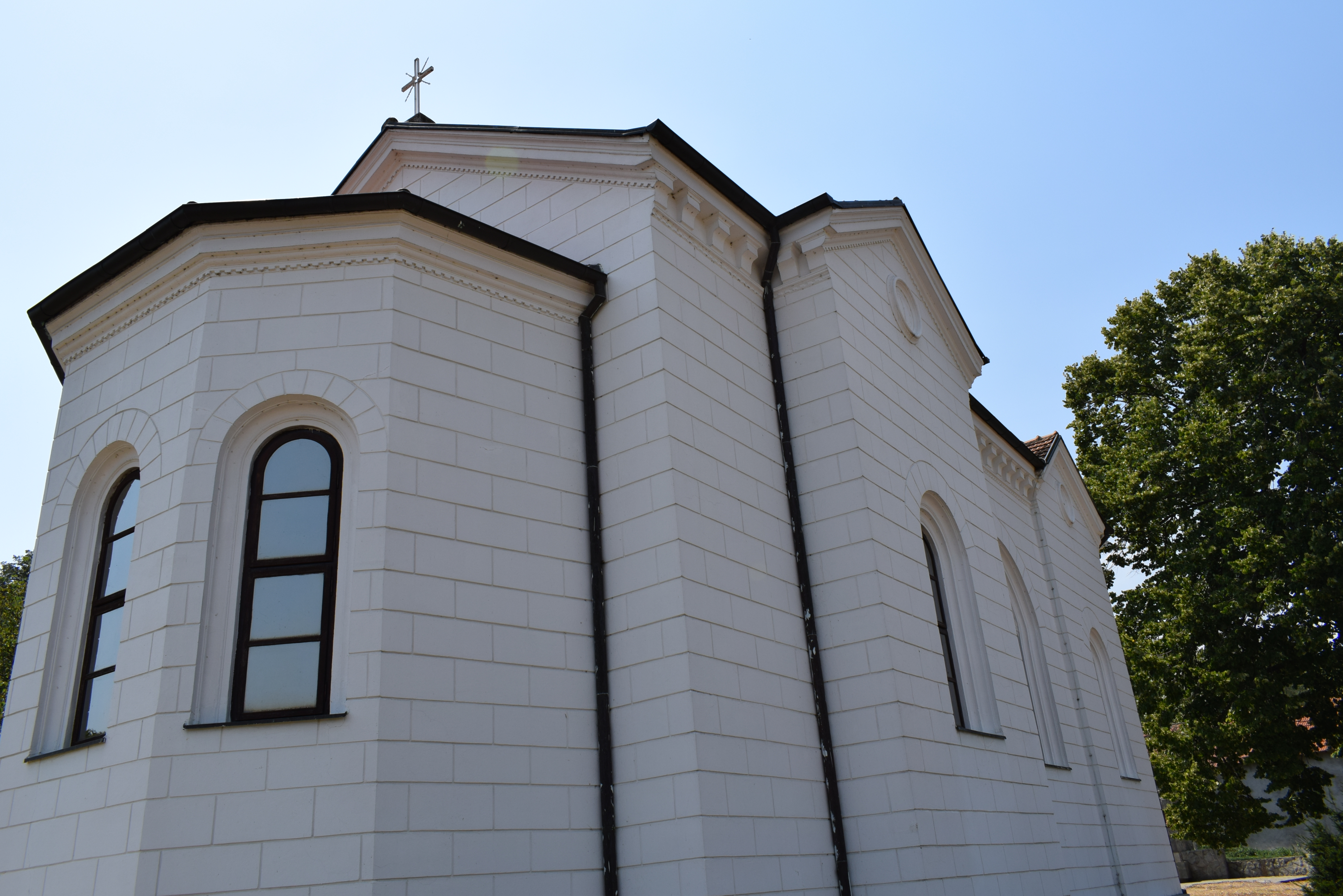 Crkva Svetih Apostola Petra i Pavla, Žitorađa 08